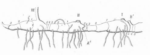 Polygonatum verticillatum end of rhizome in August. I,II scars from previous two years' above-ground stems. III current year's stem. k1,k2 dormant bud. 1-5 leaf scars.